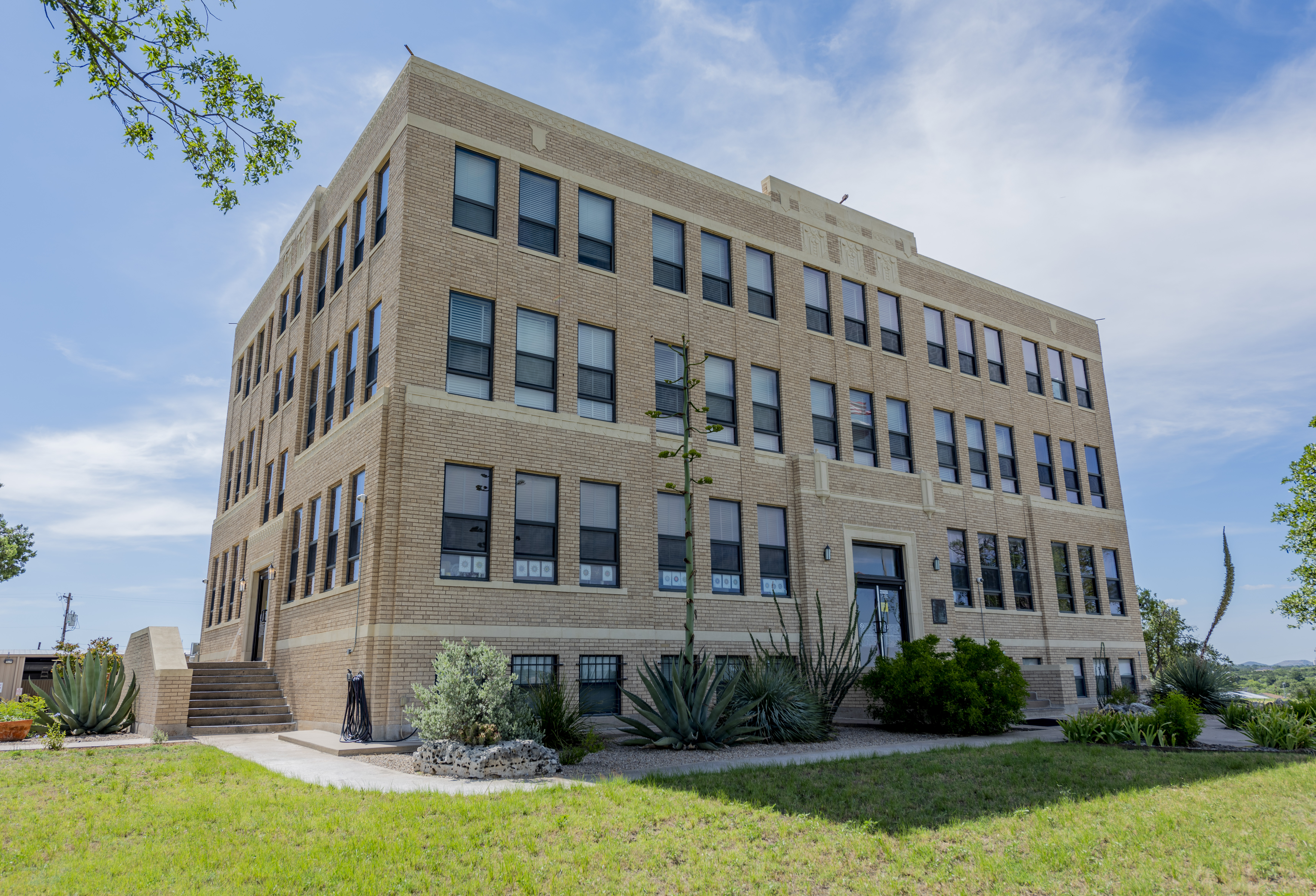 Image of the Irion County courthouse located in Mertzon, Texas. Taken in May 2020.